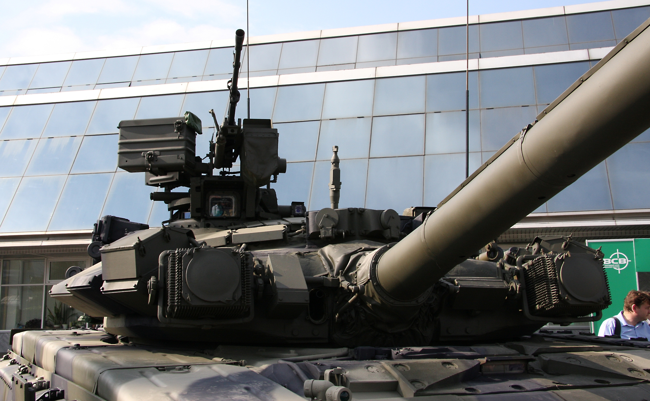 The Ministry of Defence of Russia exposition in open access. On display are among others a T-90S and a T-80U tank.